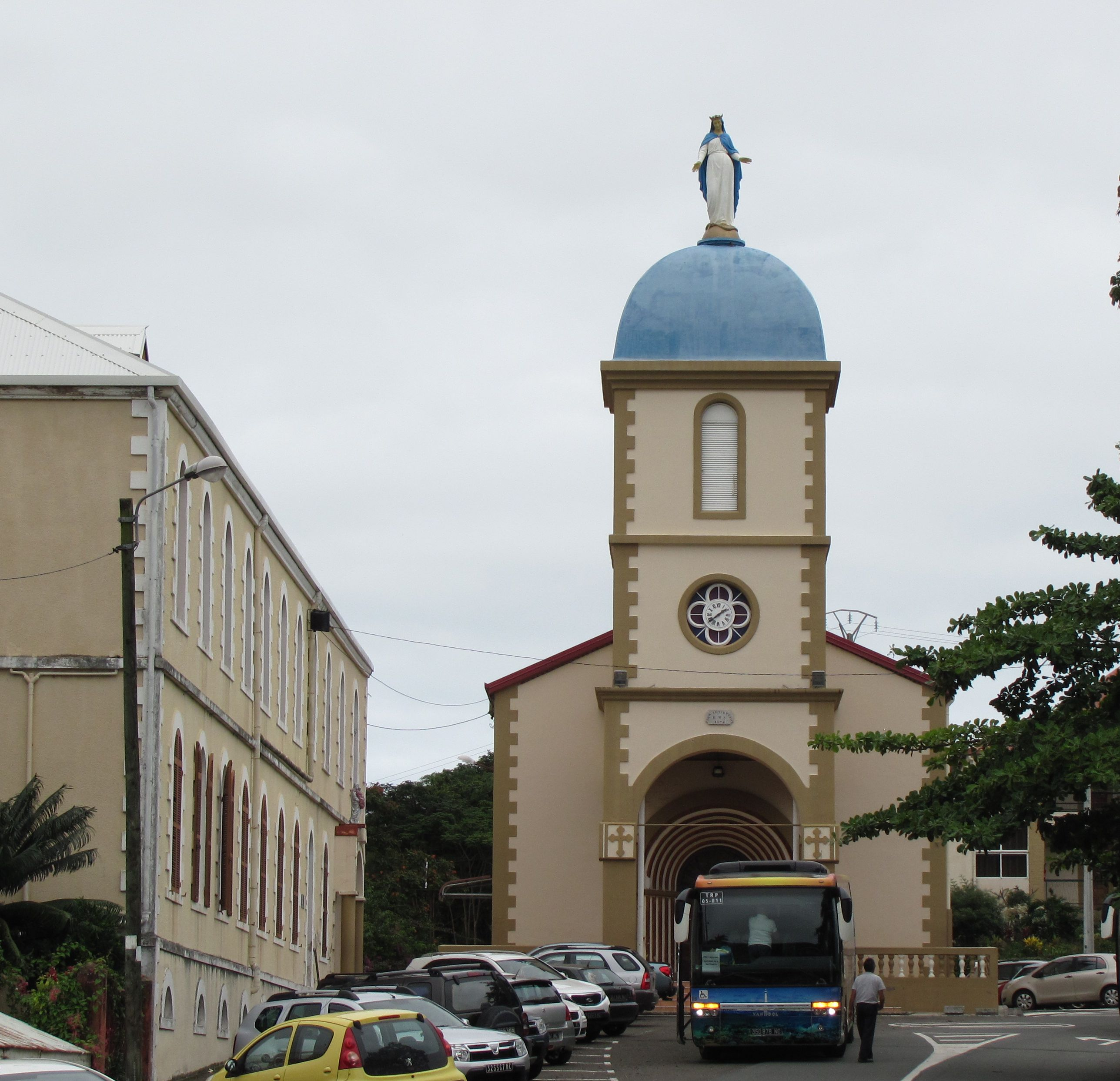 Catholic pilgrimage church, Le Mont-Dore, New Caledonia